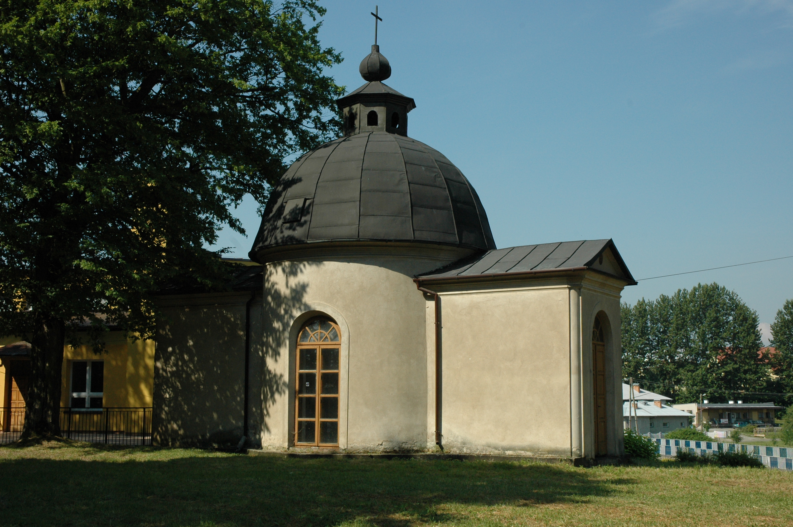 Manor house complex- Chapel